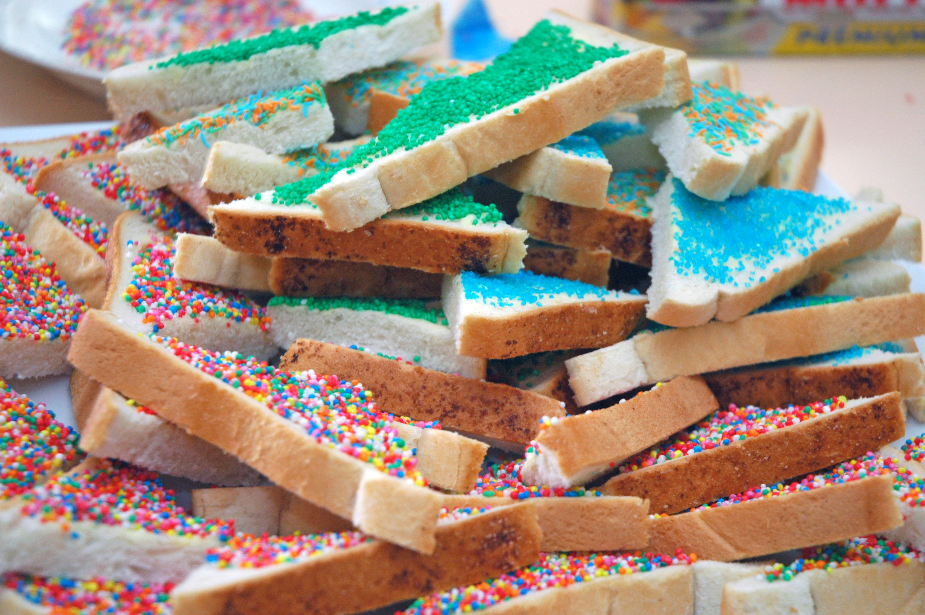 A plate of fairy bread, cut into triangles.